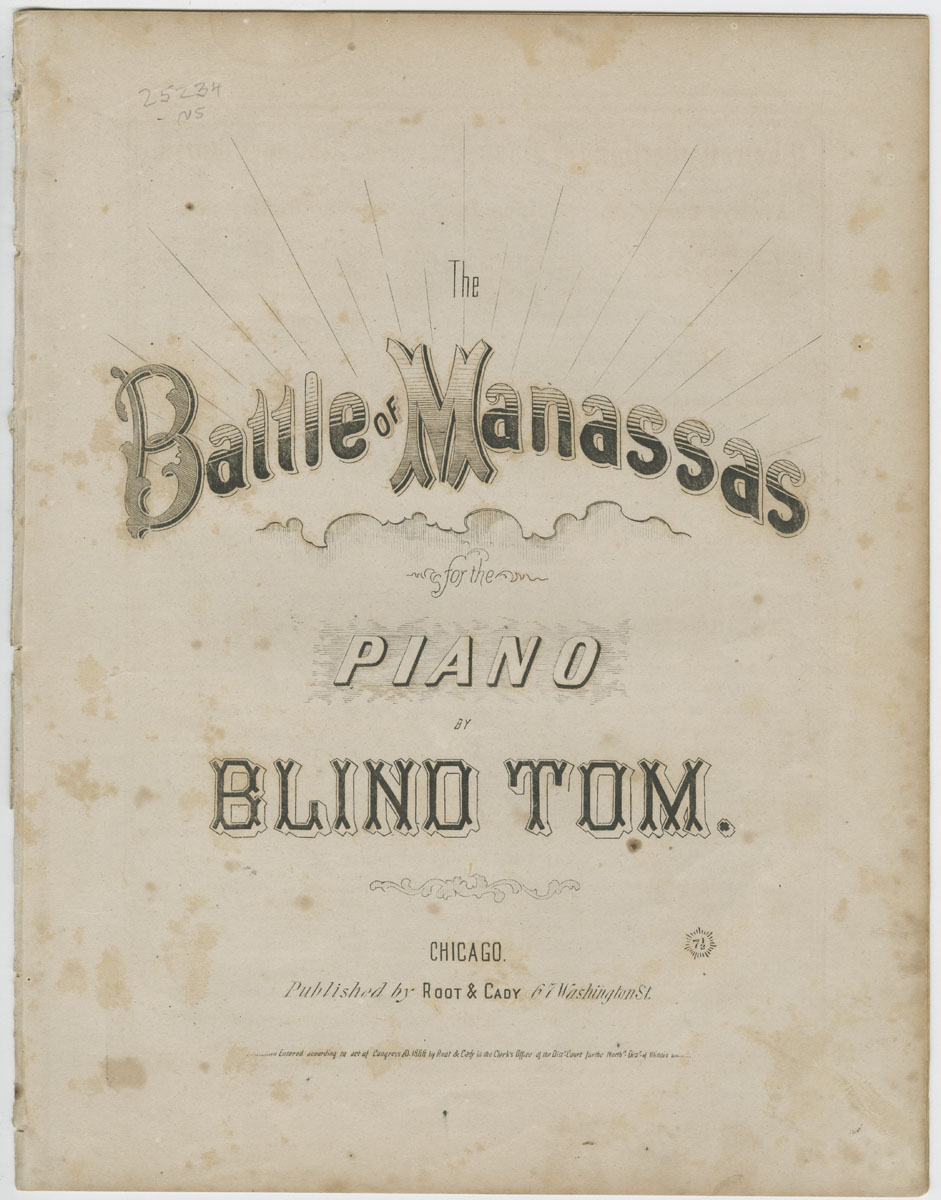 Blind Tom, The Battle of Manassas. Chicago, 1866. Printed sheet music cover. 13 x 9 in. Picture depicts sheet music cover with the text in block-shaped letters. Title from top of page to bottom of page reads: The Battle of Manassas [next line] for the Piano [next line] by [next line] Blind Tom [next line] Chicago: [next line] Published by Root & Cady, 67 Washington St. Lines symbolizing rays of light jut up from the block-letter text shaded with horizontal lines and reading “The Battle of Manassas.” The text rests above horizontal lines forming the edge of a partial image of a cloud. Curvy lines creating a shaded effect resembling a jagged-edged box forms the background for the text reading “Piano.” The black block letters in the text reading “Blind Tom” appear as traced in outline. Cover also contains a copyright statement and the price 7 ½ [cents]. [End of description] Sheet Music Battle 12082.F